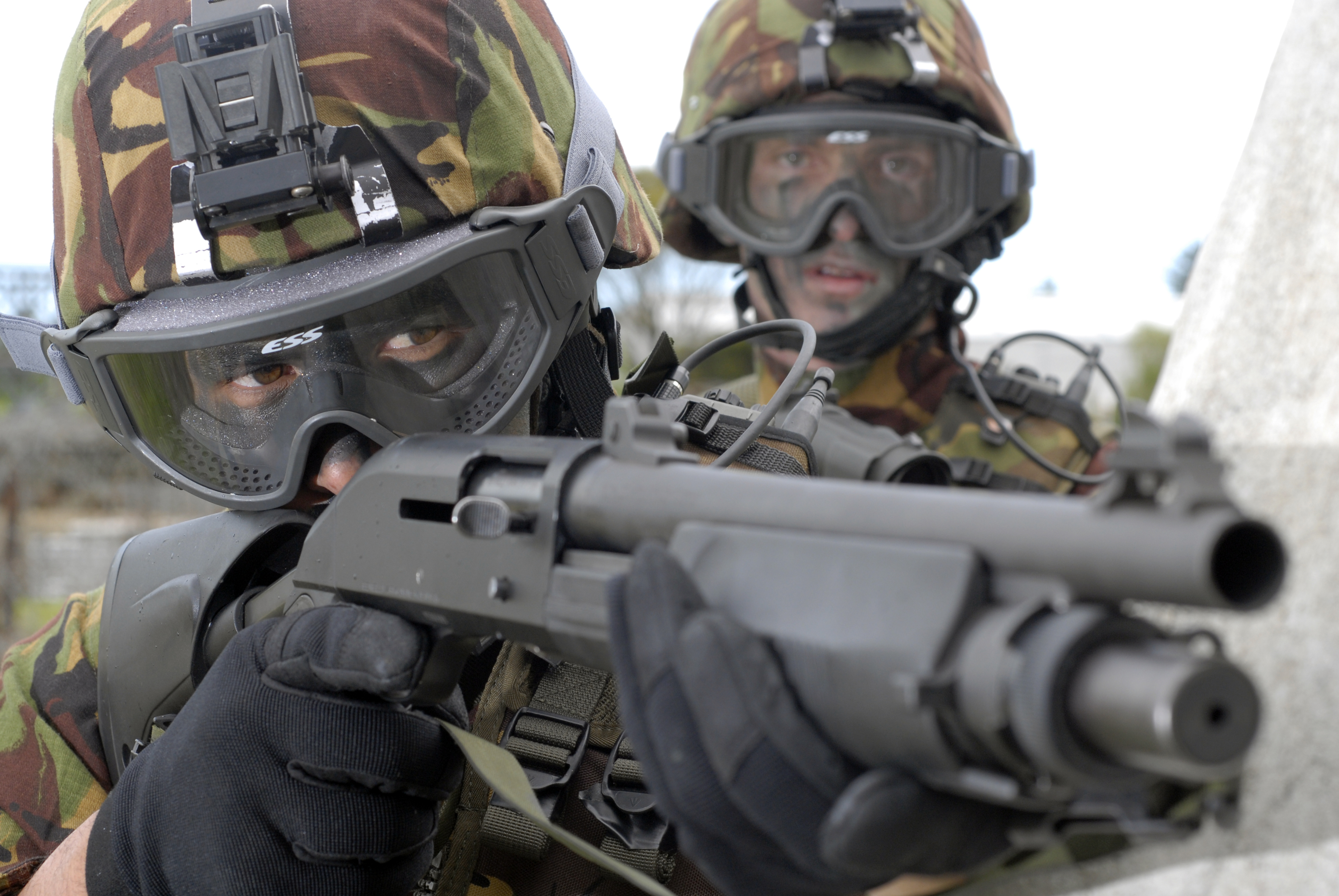 Lance Corporal Rua Watson with combat shotgun OH 06-0569 Crown Copyright 2011, NZ Defence Force – Some Rights Reserved.